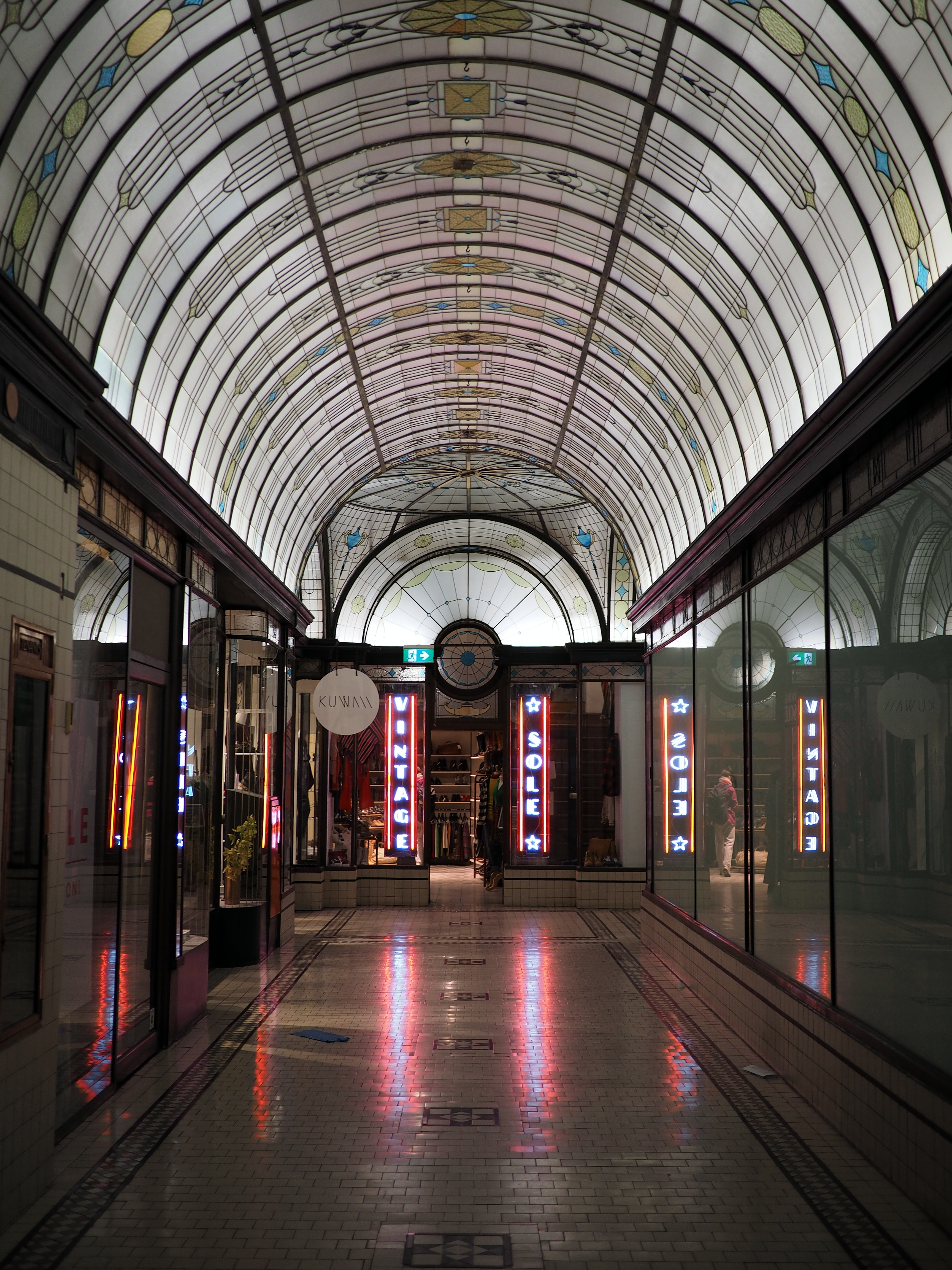 Cathedral Arcade in Melbourne